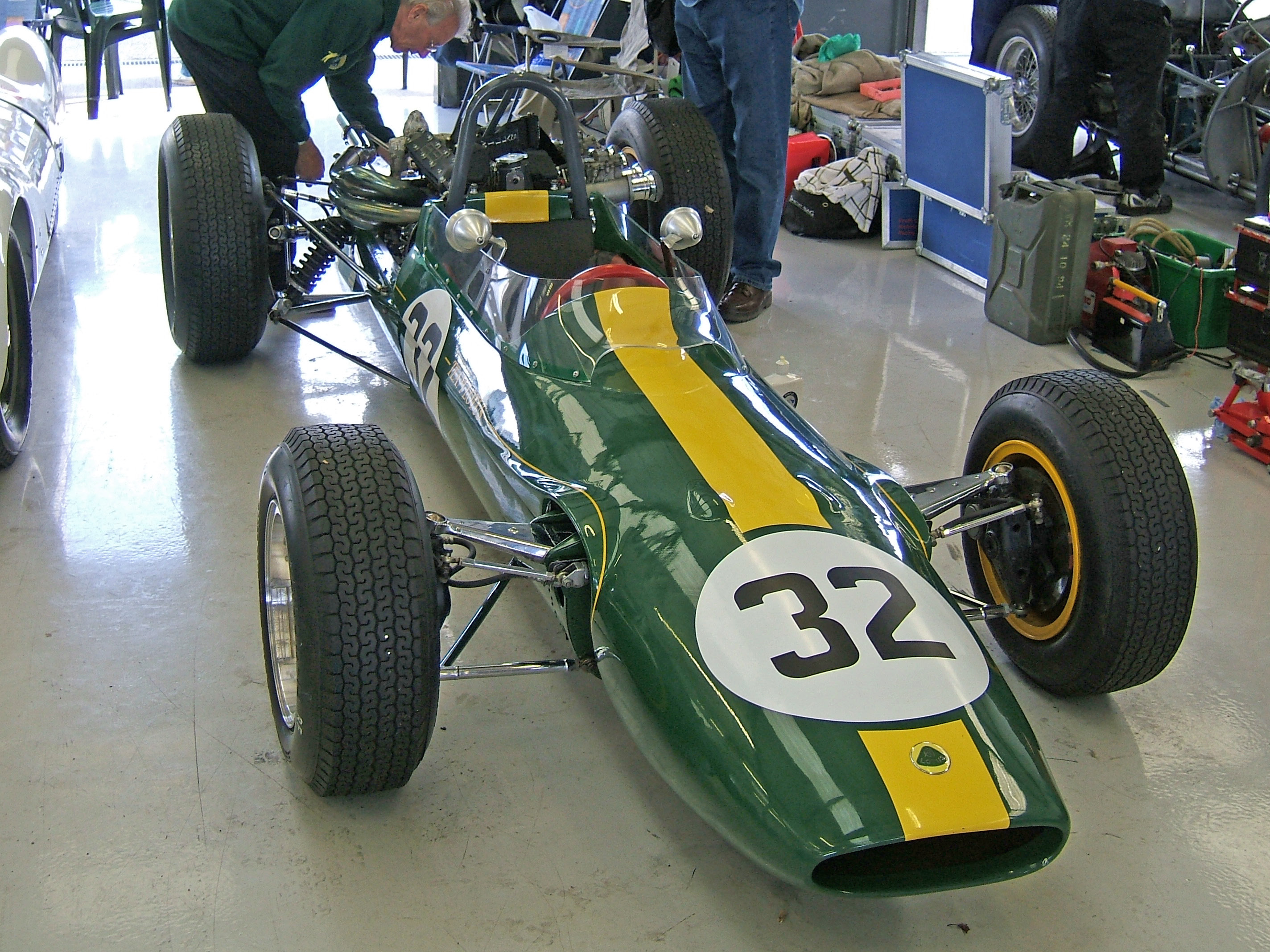 A Lotus 32B having its engine fettled in the pit garages at Silverstone Circuit, during the Silverstone Classic race meeting, July 2007. This is the 2.5L Tasman Series variant, not the Formula Two car.